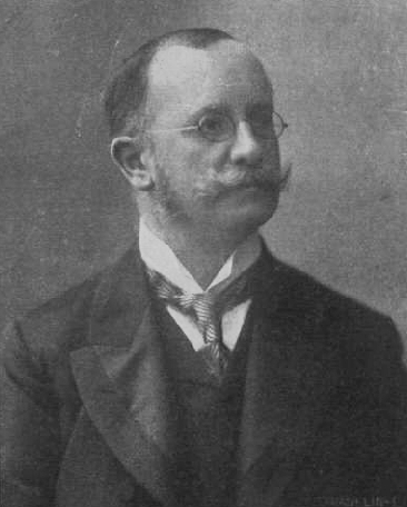 Portrait of Károly Schaffer